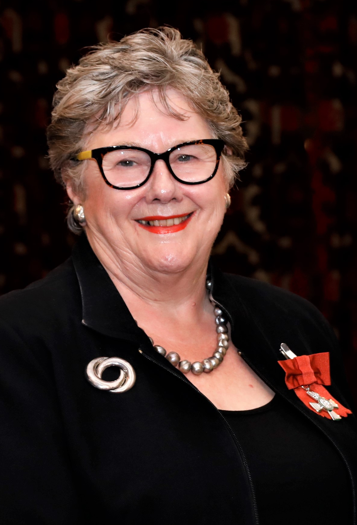 Margaret Kouvelis, after her investiture as MNZM, for services to local government and education, on 29 April 2019.